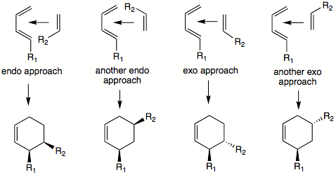 endo and exo orientation in Diel-Alder reation